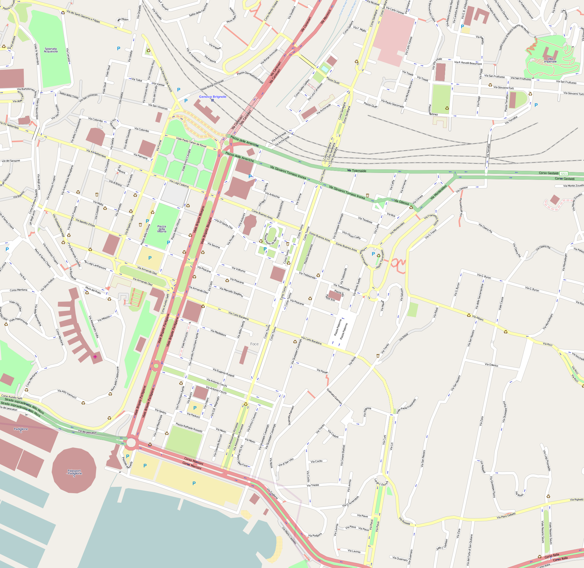 This map may be incomplete, and may contain errors. Don't rely solely on it for navigation.